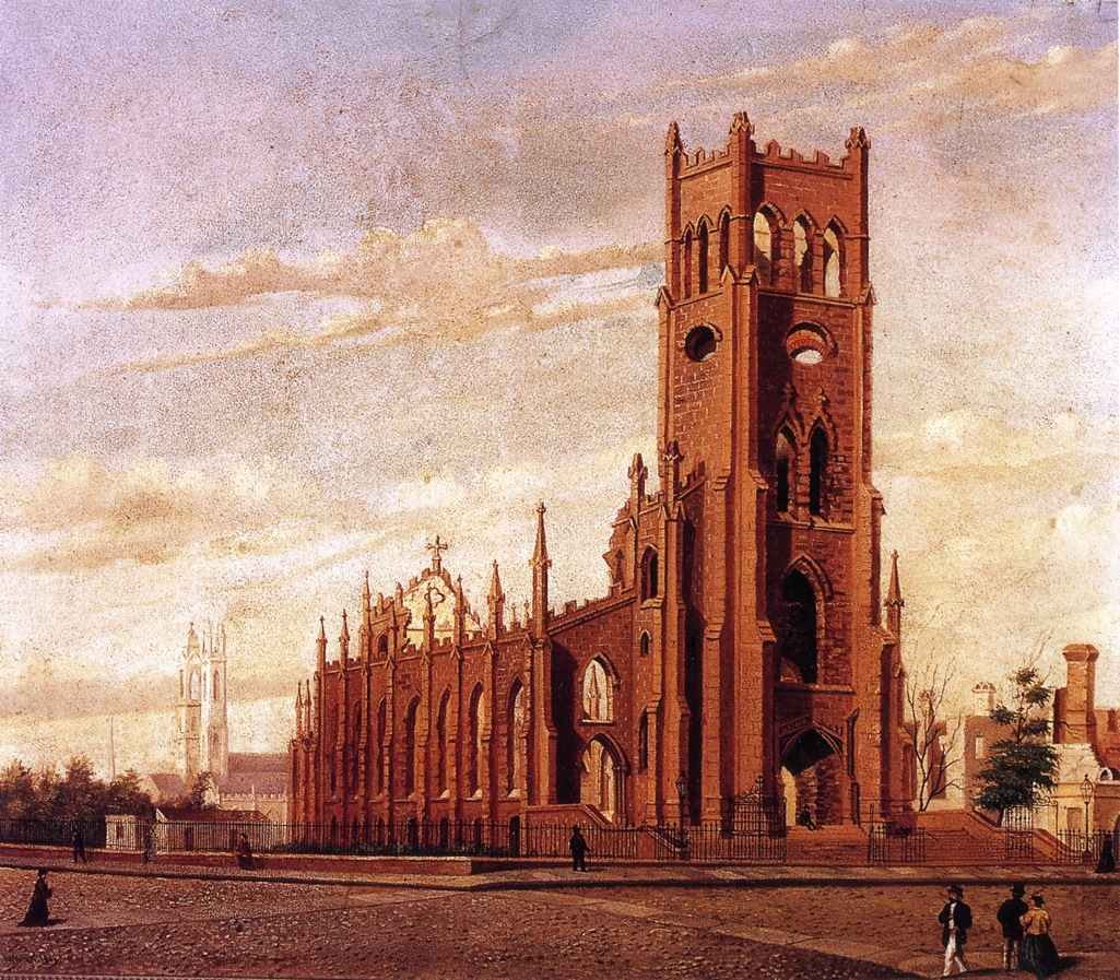 "St. Finebar's Church, Broad Street, Charleston,"